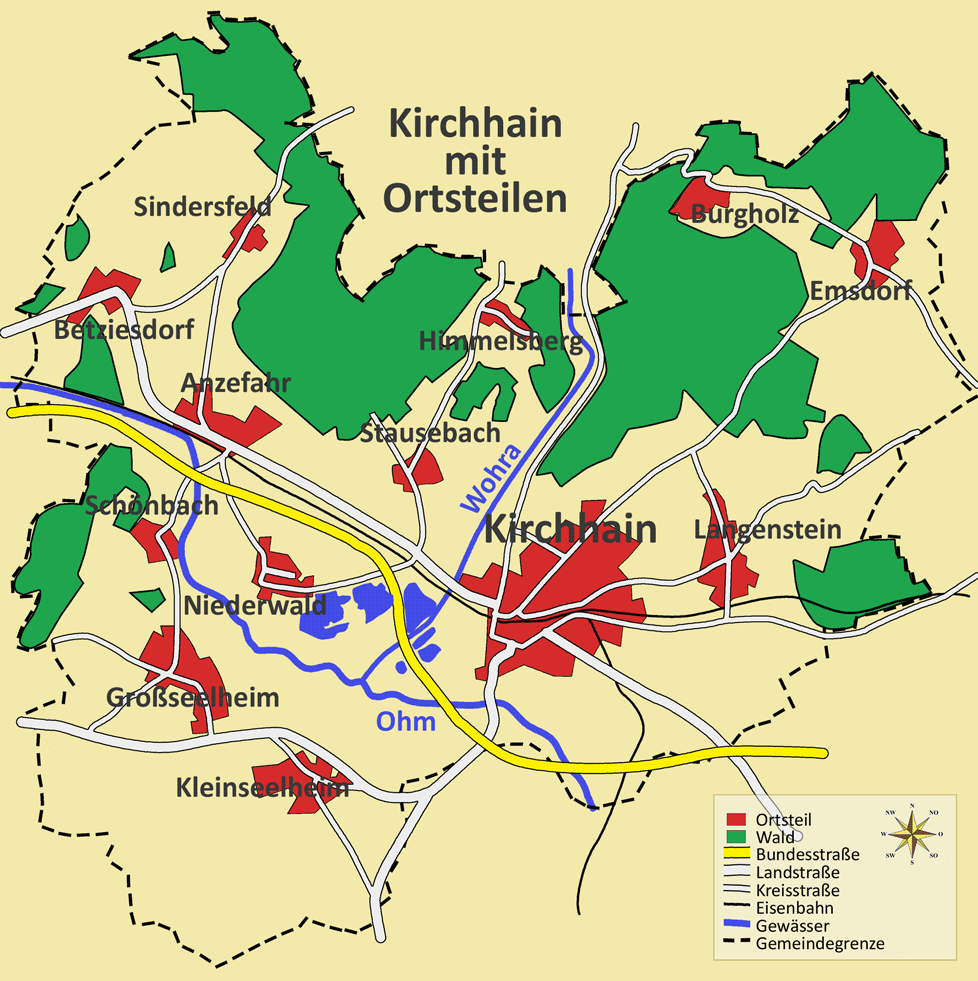 The map shows Kirchhain a district in the area of Marburg-Biedenkopf